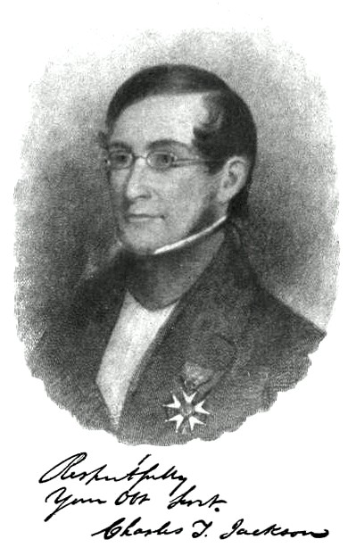 Image of Dr. Charles Thomas Jackson, the physician and geologist, with his signature